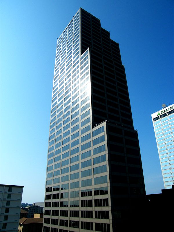 Metropolitan National Bank Tower in downtown Little Rock, Arkansas with Regions Center in the background.